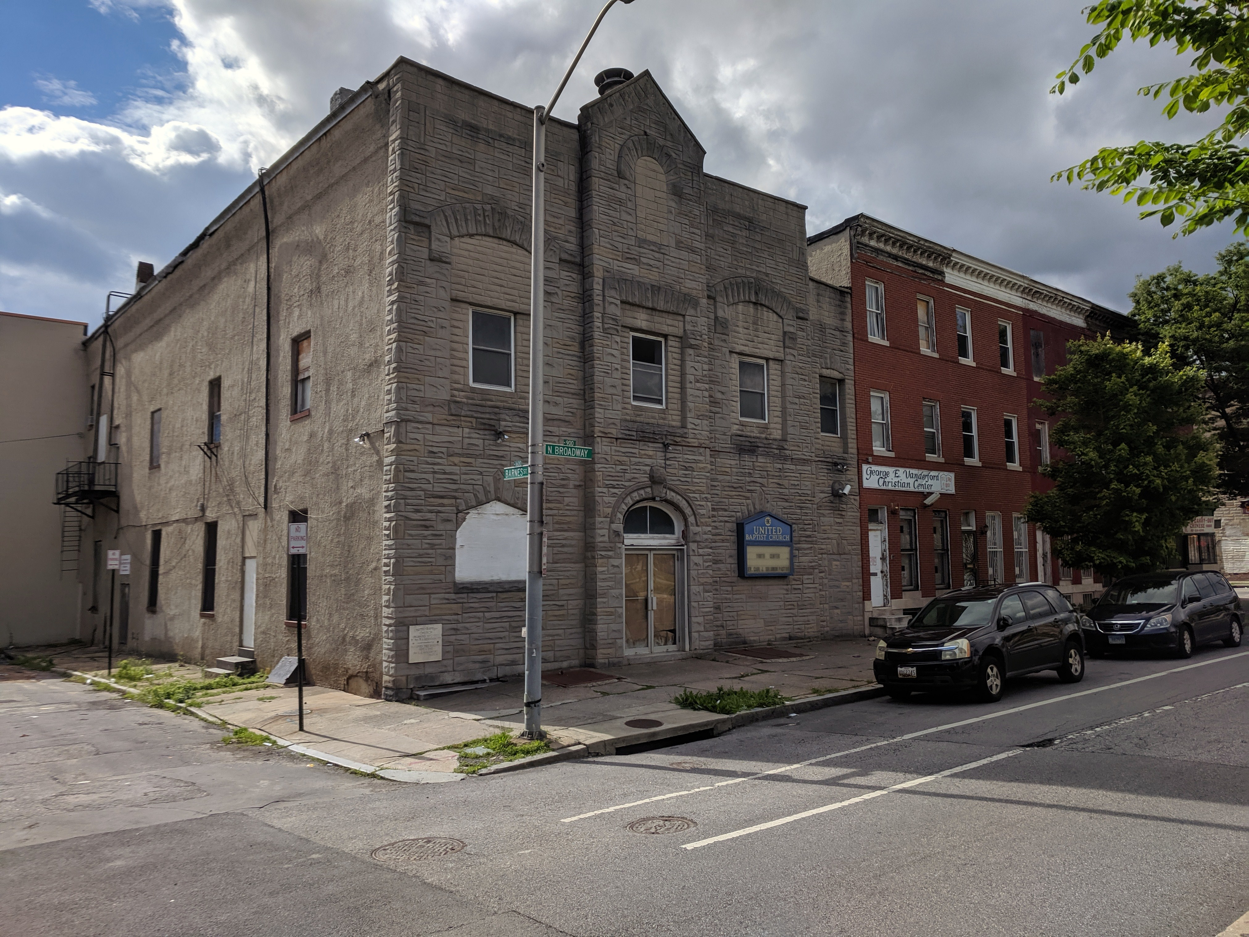 Abandoned building at Barnes and Broadway in Gay Street, the former location of both Shimek's Bohemian Hall (Czech-American) and the United Baptist Church (African-American).